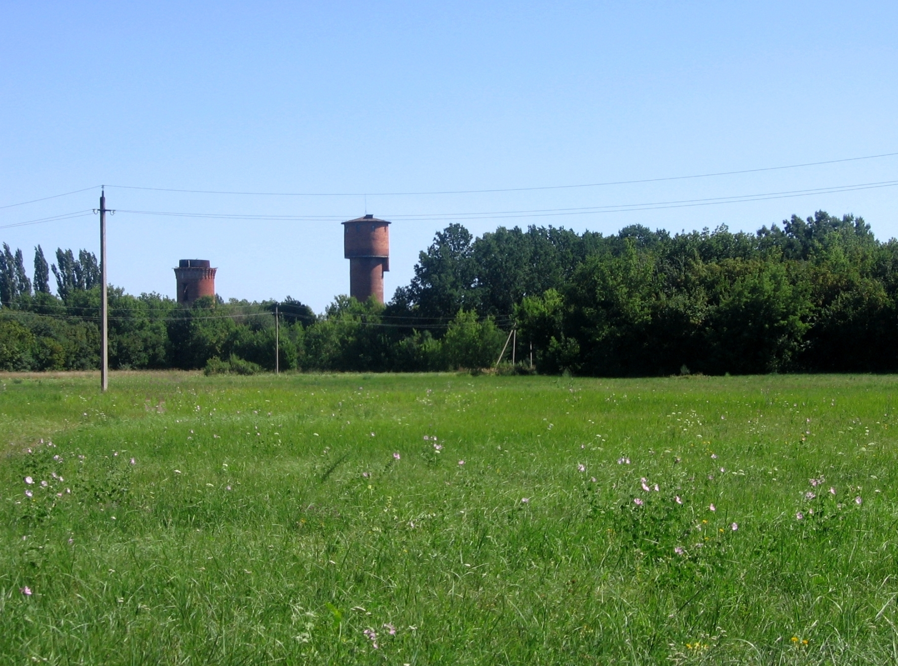 The Towers of the soil research institute "Kamennaya Steppe" in Talovsky District, Volgograd Oblast, Russia.